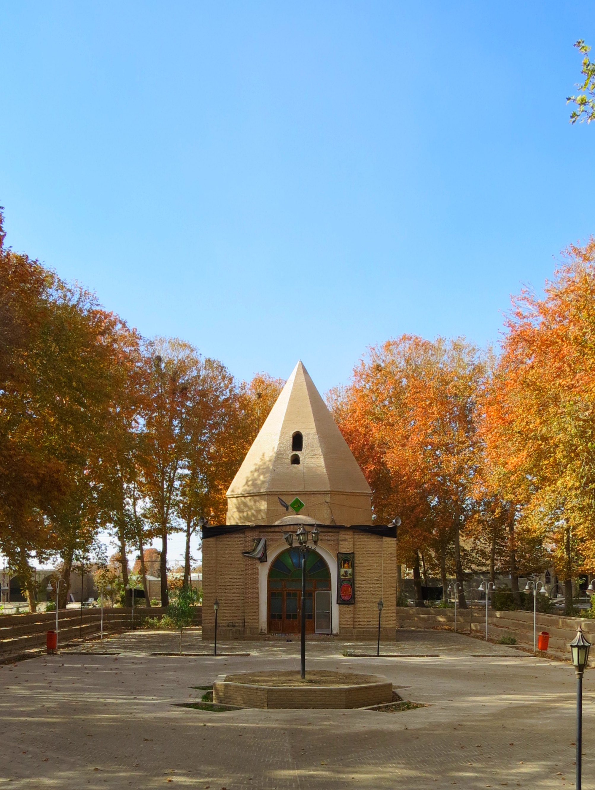 Yusef-e Razi's tomb is located in the village Yusefreza near Varamin